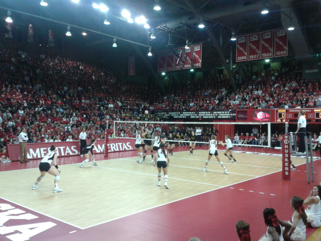 Nebraska Cornhuskers volleyball team at home against Iowa in 2012.